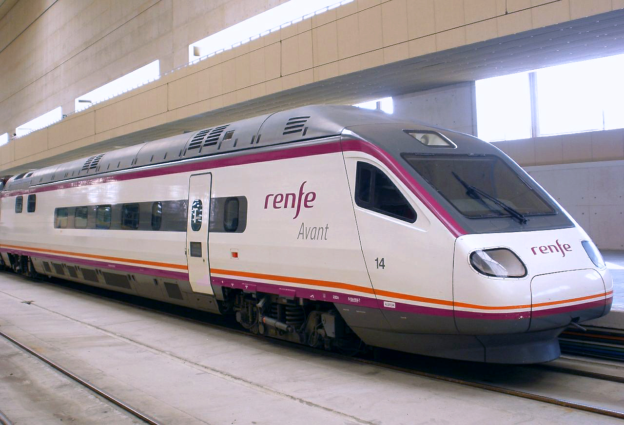 Unidad Avant (Renfe serie 104) en la Estación de Zaragoza-Delicias (España)